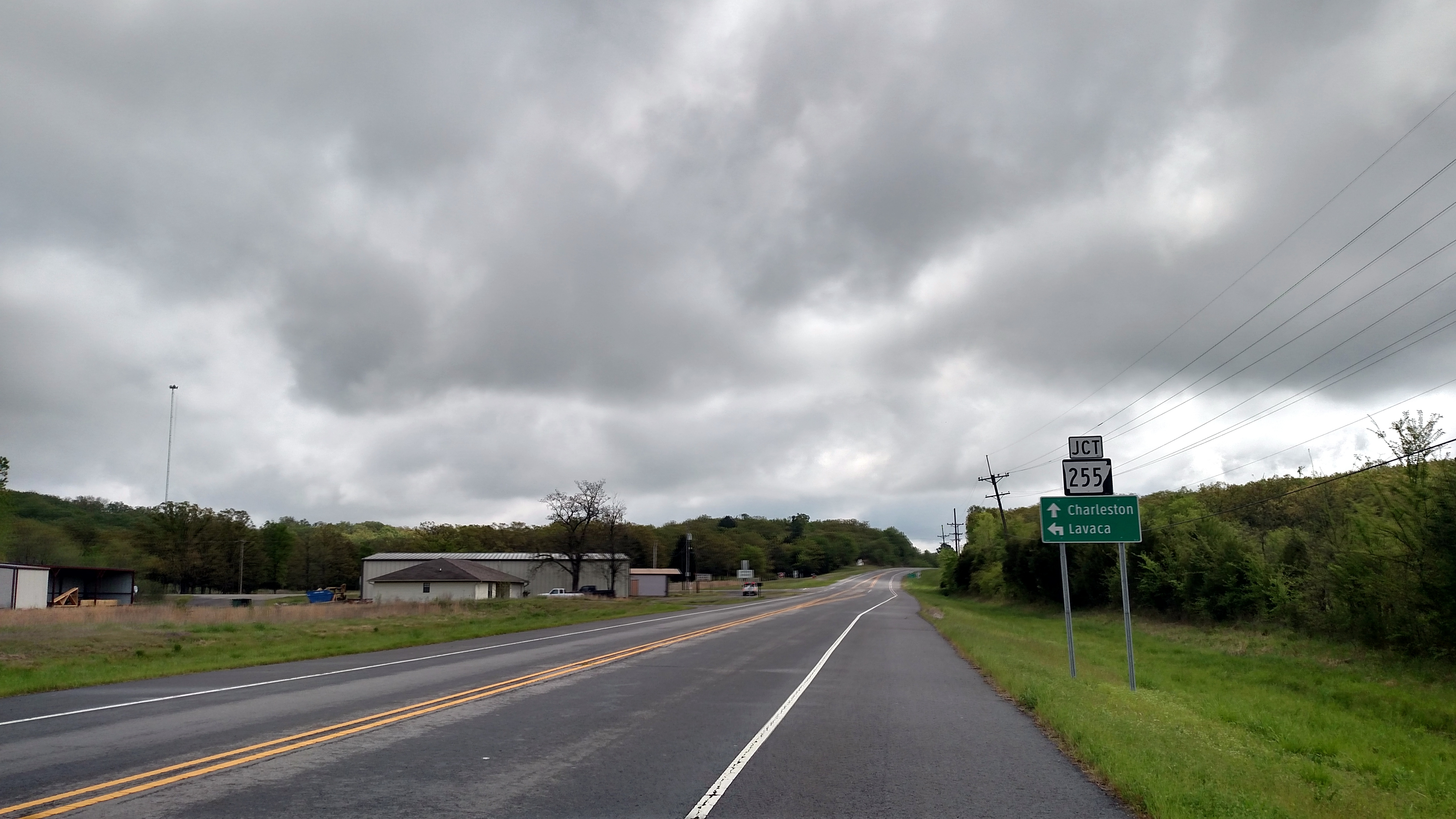 Highway 22 near junction with Highway 255